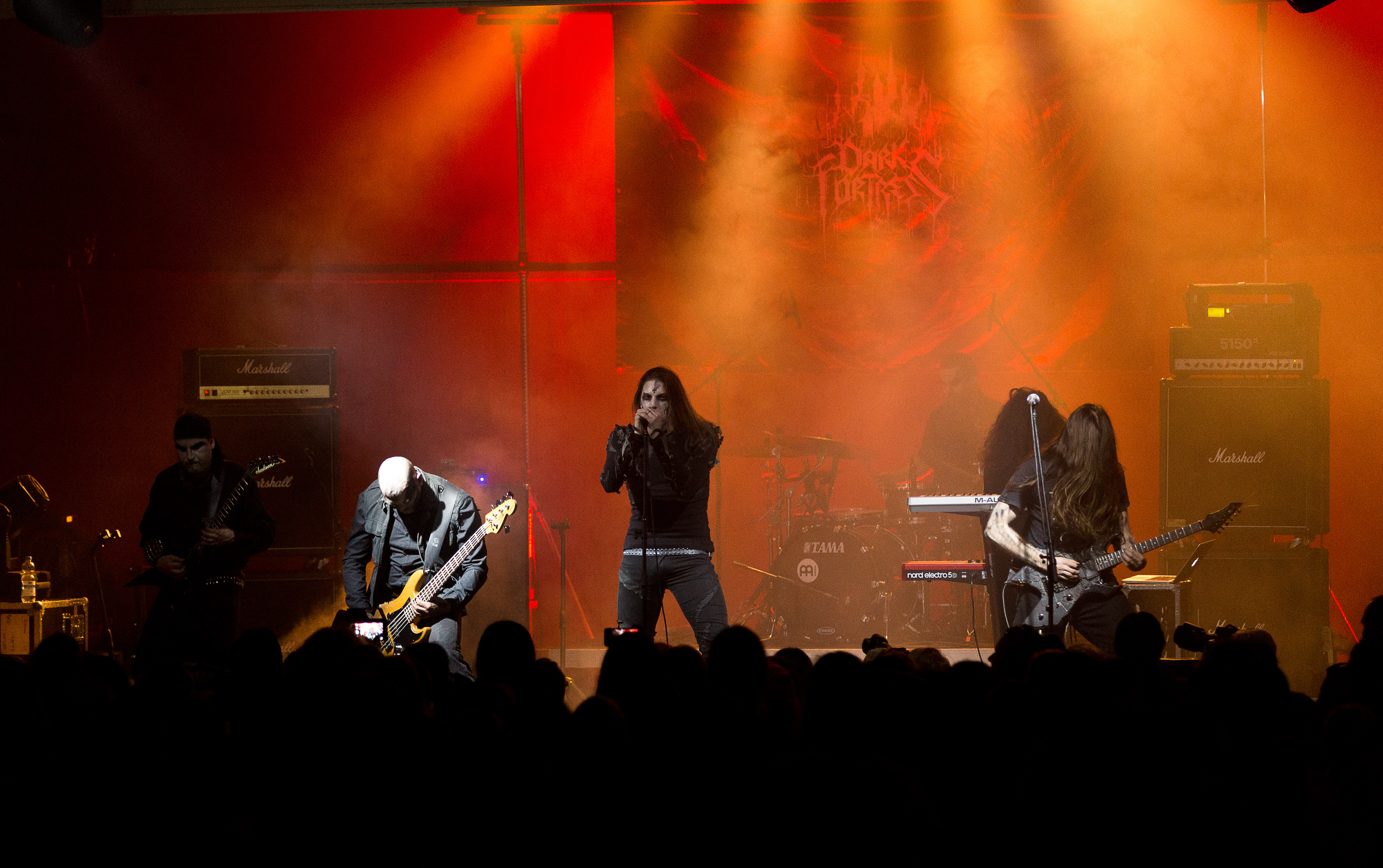 The German black metal band Dark Fortress at the 25. Wave-Gotik-Treffen 2016 in Leipzig/Germany.